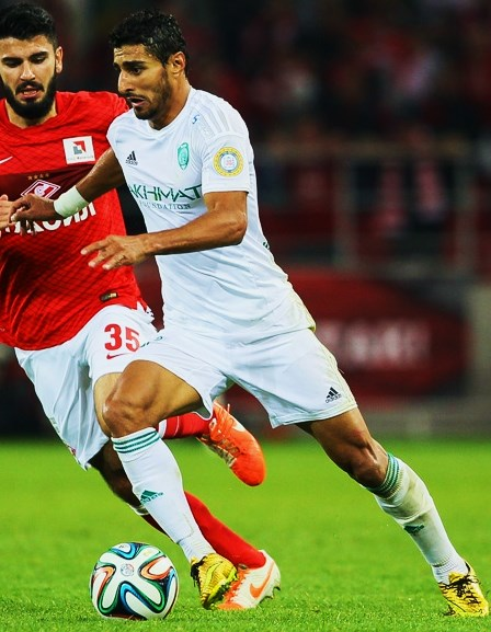 Ailton Almeida